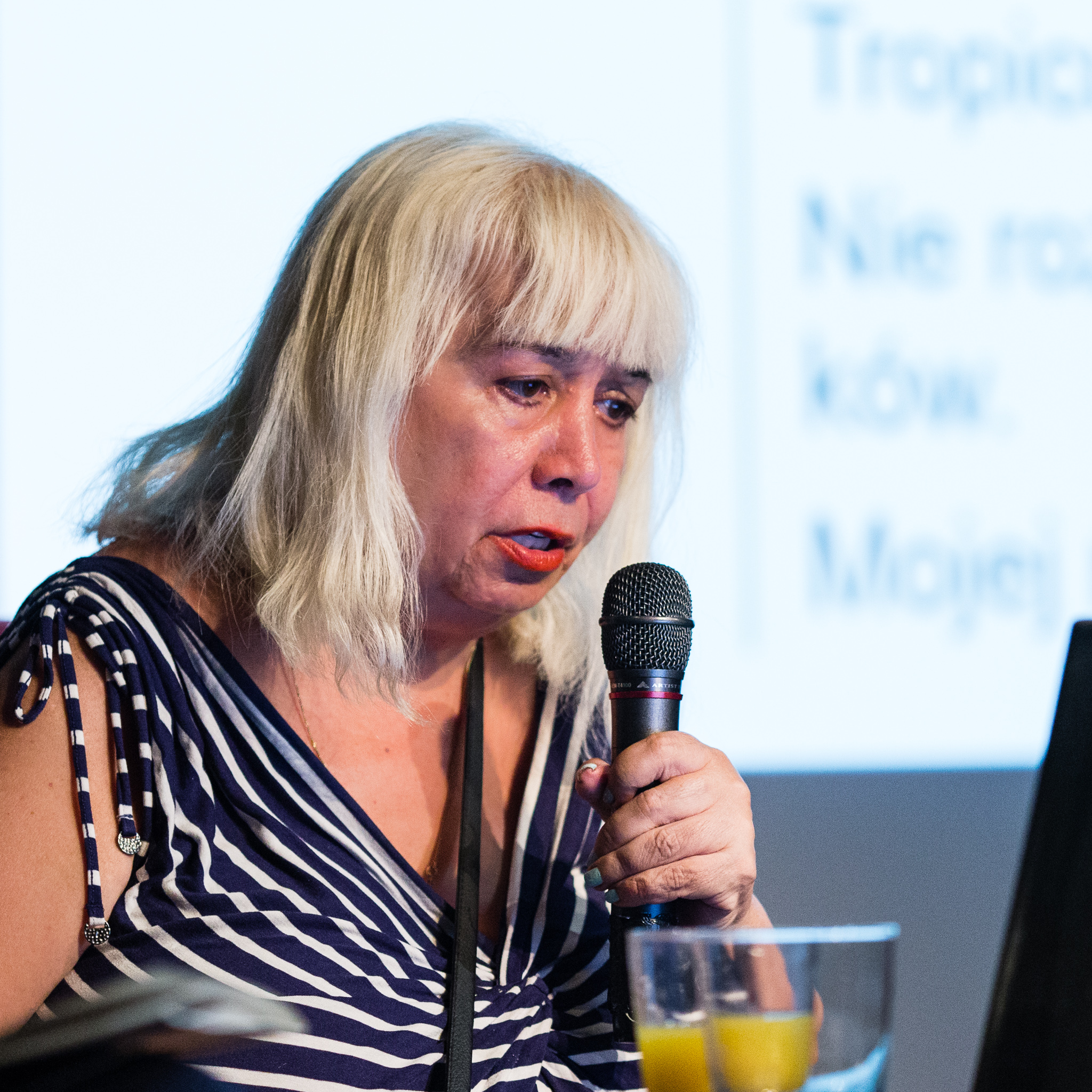 Lale Müldür on Authors’ Reading Month 2018, Wrocław, Poland